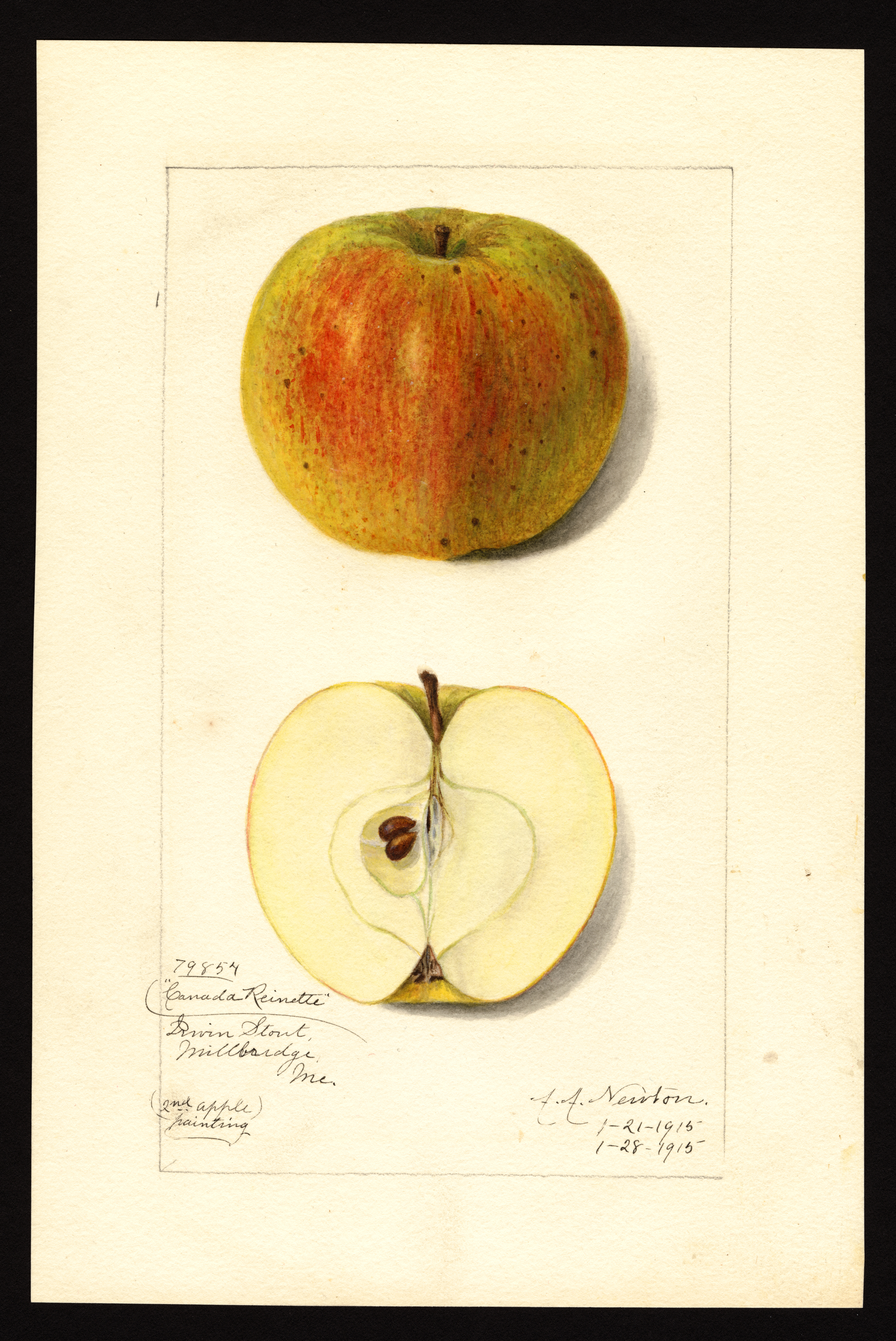 Image of the Canada Reinette variety of apples (scientific name: Malus domestica), with this specimen originating in Millbridge, Washington County, Maine, United States. Source: U.S. Department of Agriculture Pomological Watercolor Collection. Rare and Special Collections, National Agricultural Library, Beltsville, MD 20705.